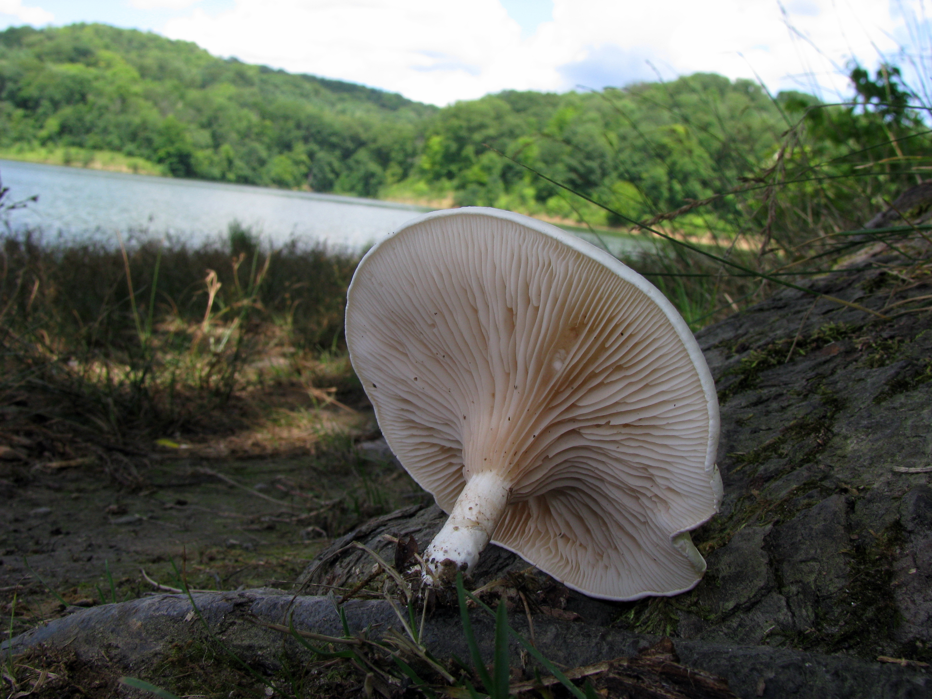 Clitopilus prunulus from Strouds Run State Park, Athens, Ohio, USA